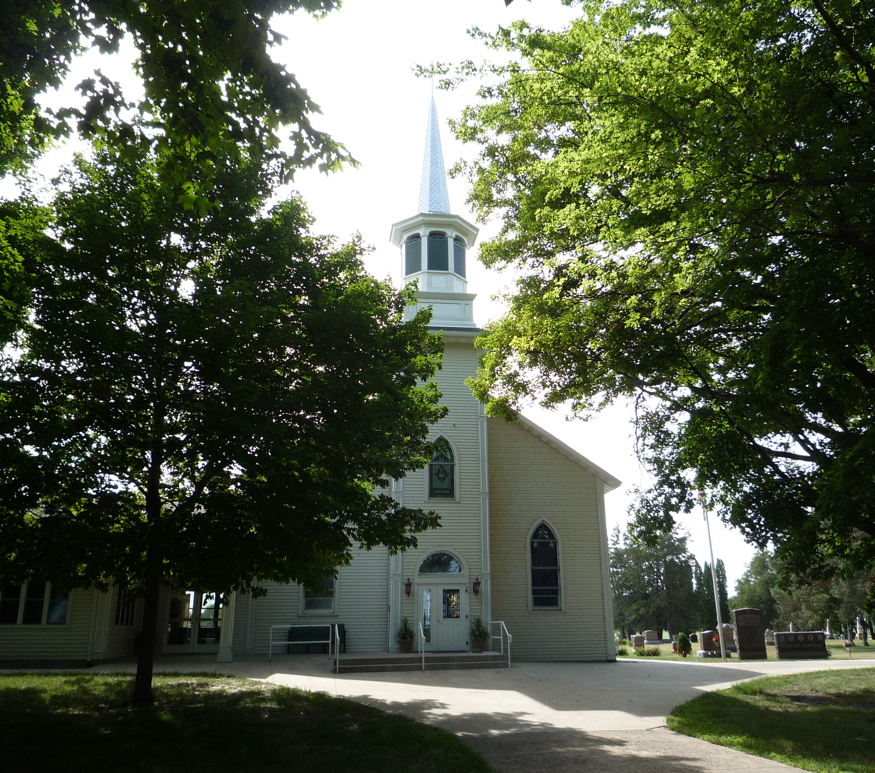 West Union Lutheran Church (NRHP), Hancock Township, Minnesota, USA.